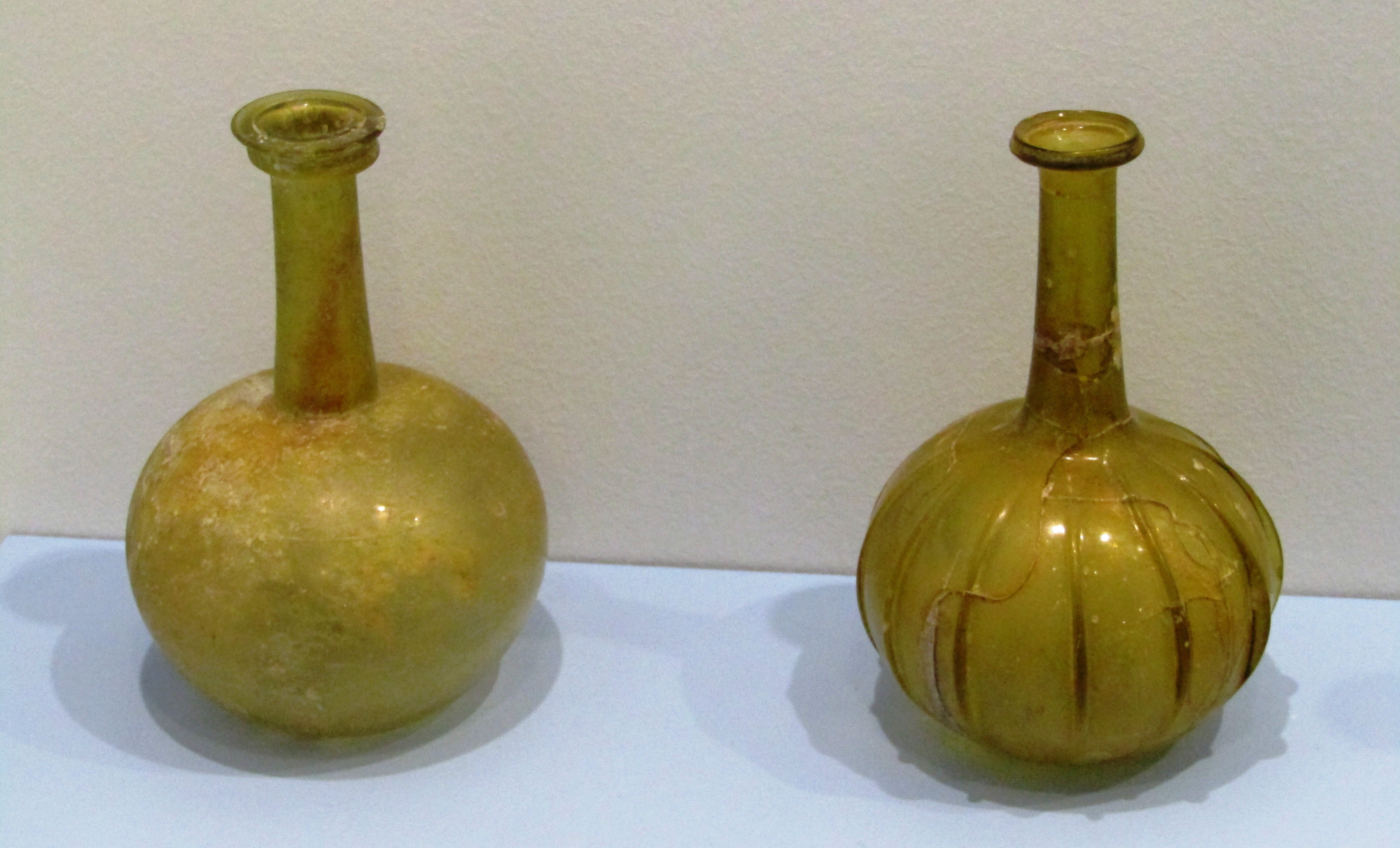 Roman bottles